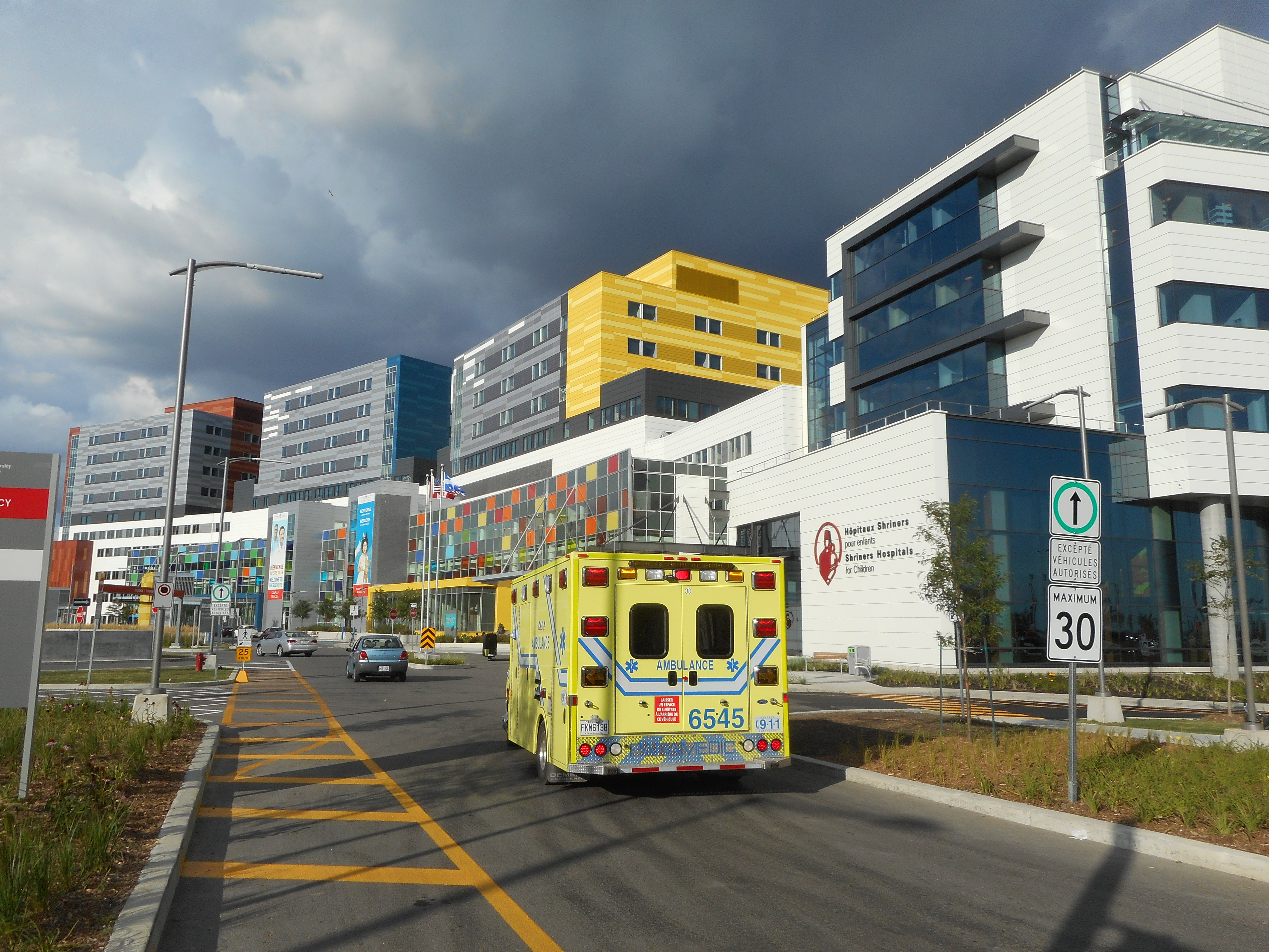 McGill University Health Centre, MUHC's Glen site